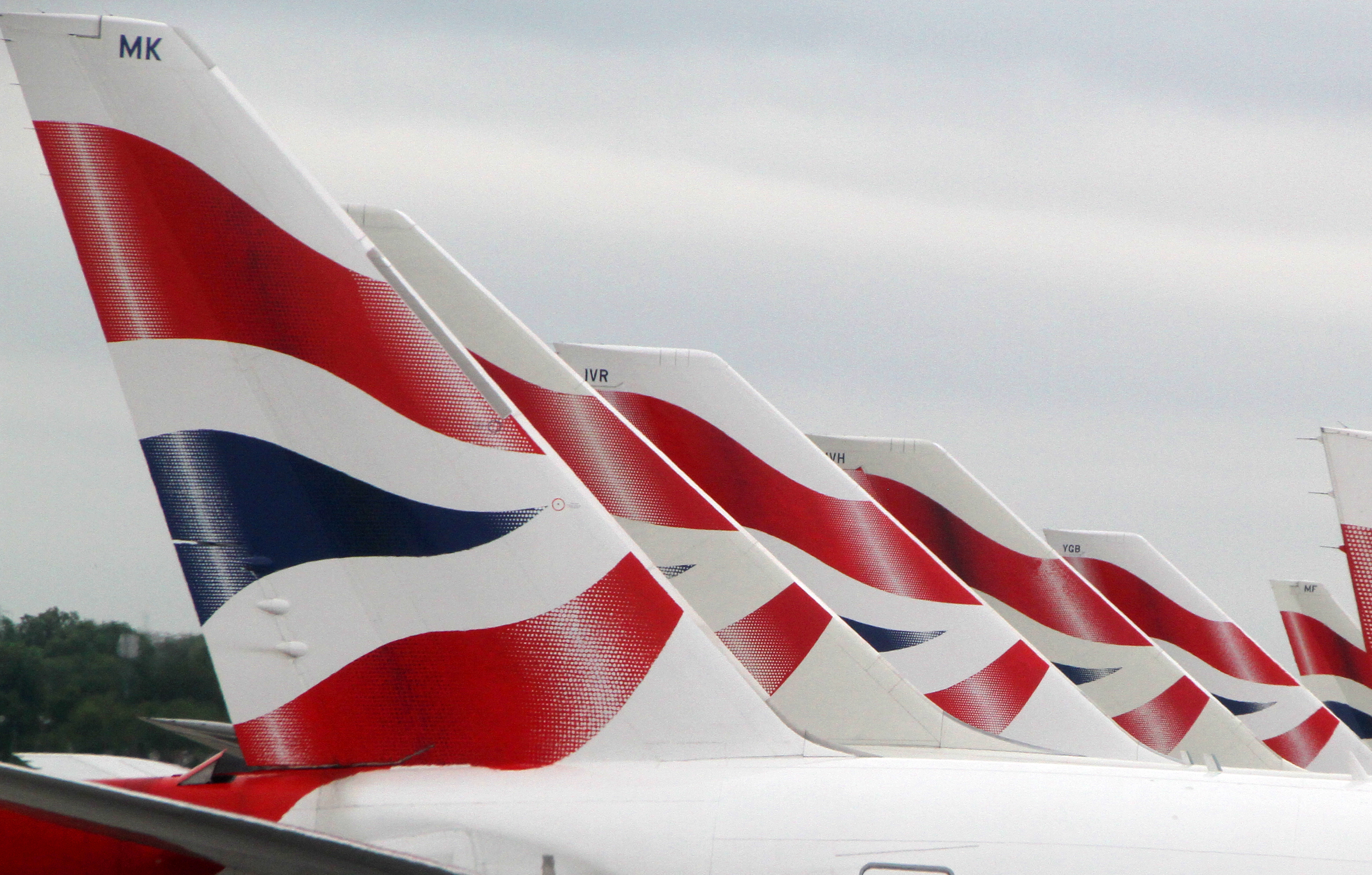 On our way from Heathrow to Washington DC